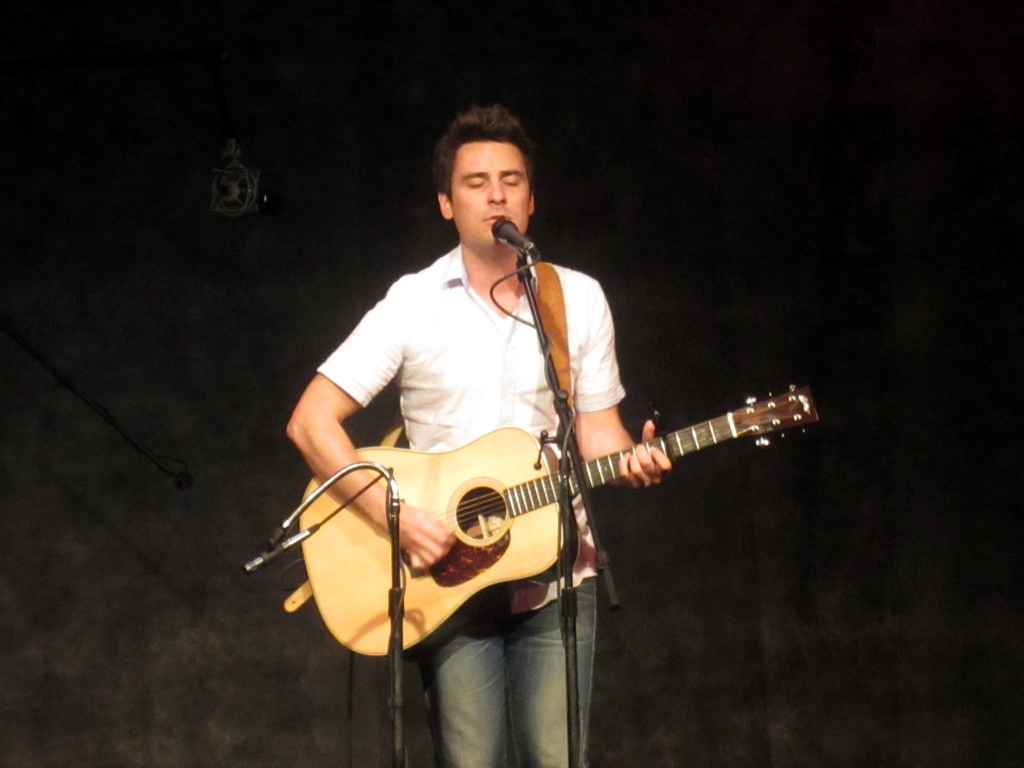 Eliot Bronson performing at the Red Clay Theatre in Duluth, Georgia, in June 2012.